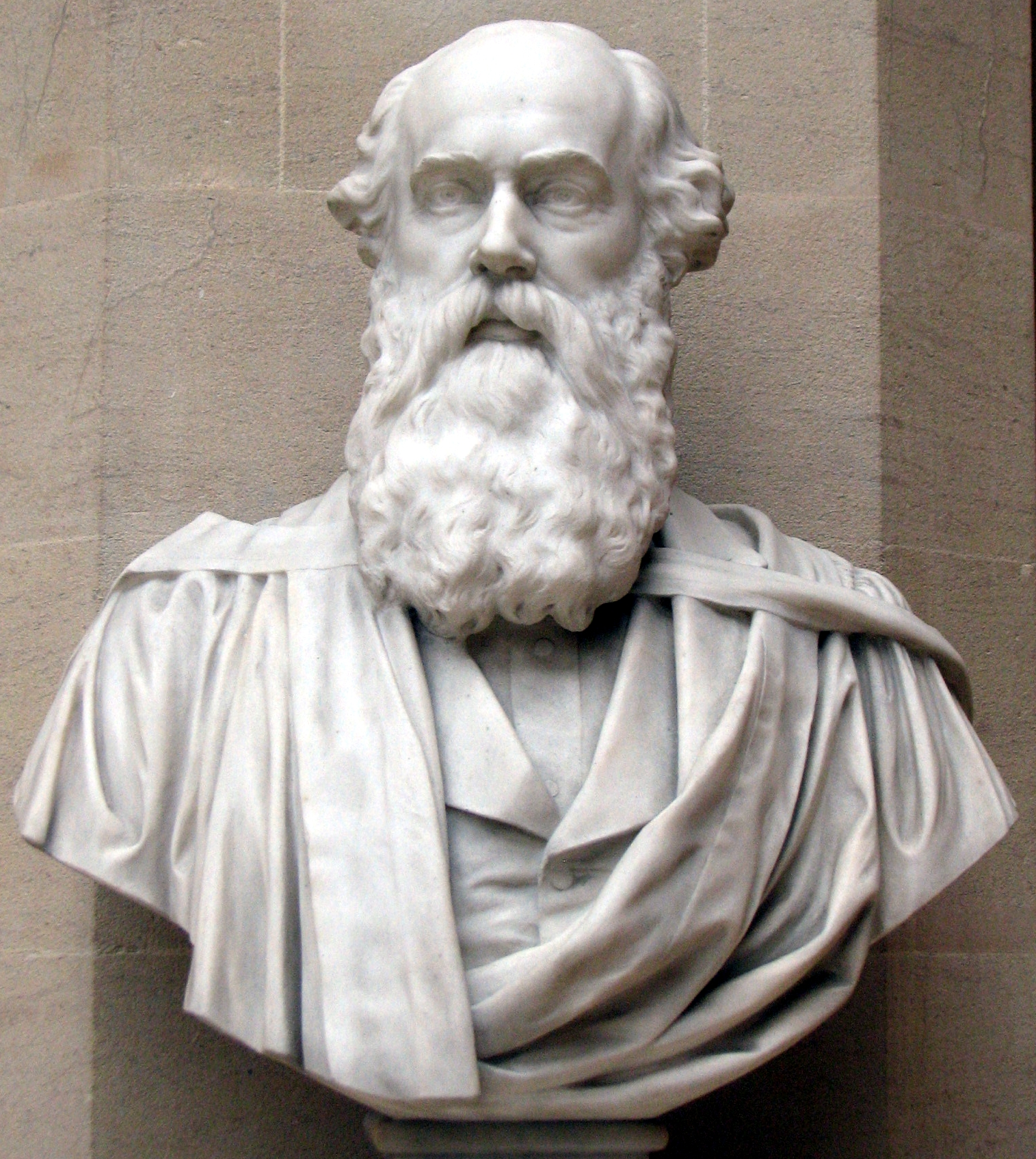 Henry John Stephen Smith, British mathematician. Statue on permanent display in the Oxford University Museum of Natural History.